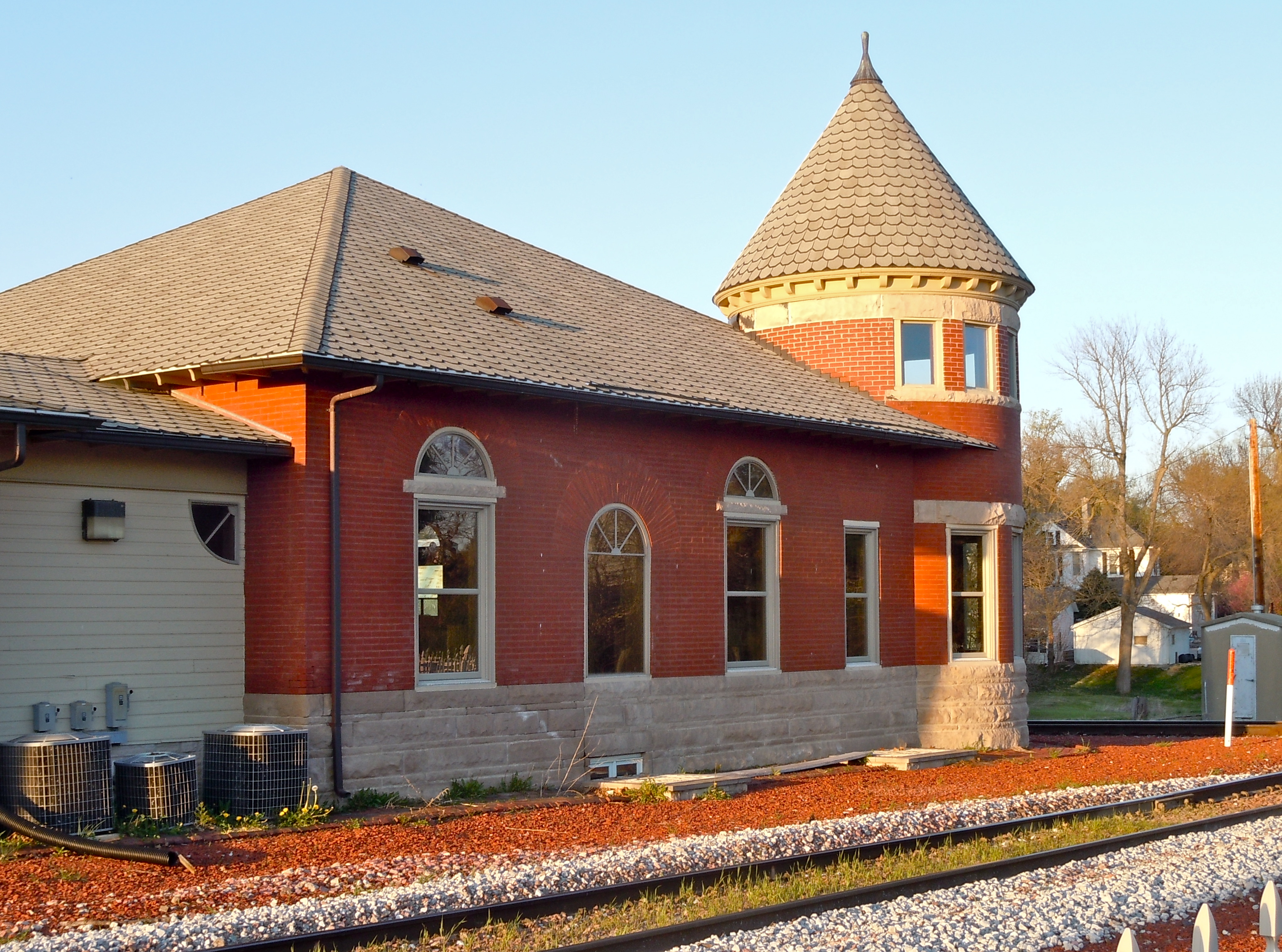 Chicago, Rock Island and Pacific Railroad-Grinnell Passenger Station (aka the Depot) on the NRHP since December 12, 1976. At Park and State Sts. (and the tracks), Grinnell, Iowa. Now a restaurant.